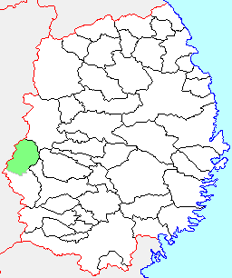 map of former Sawauchi Village, Iwate Prefecture, Japan